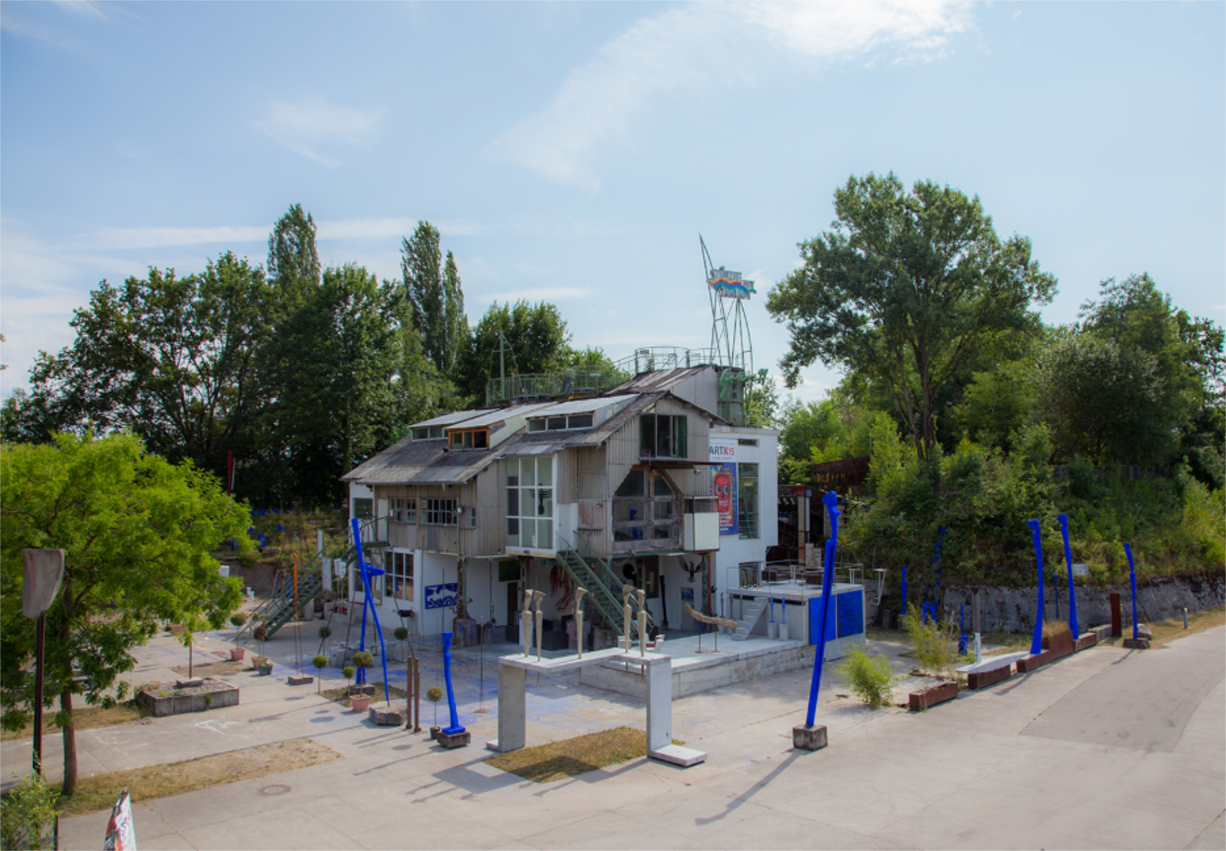 Art Space Kieswerk, August 2015